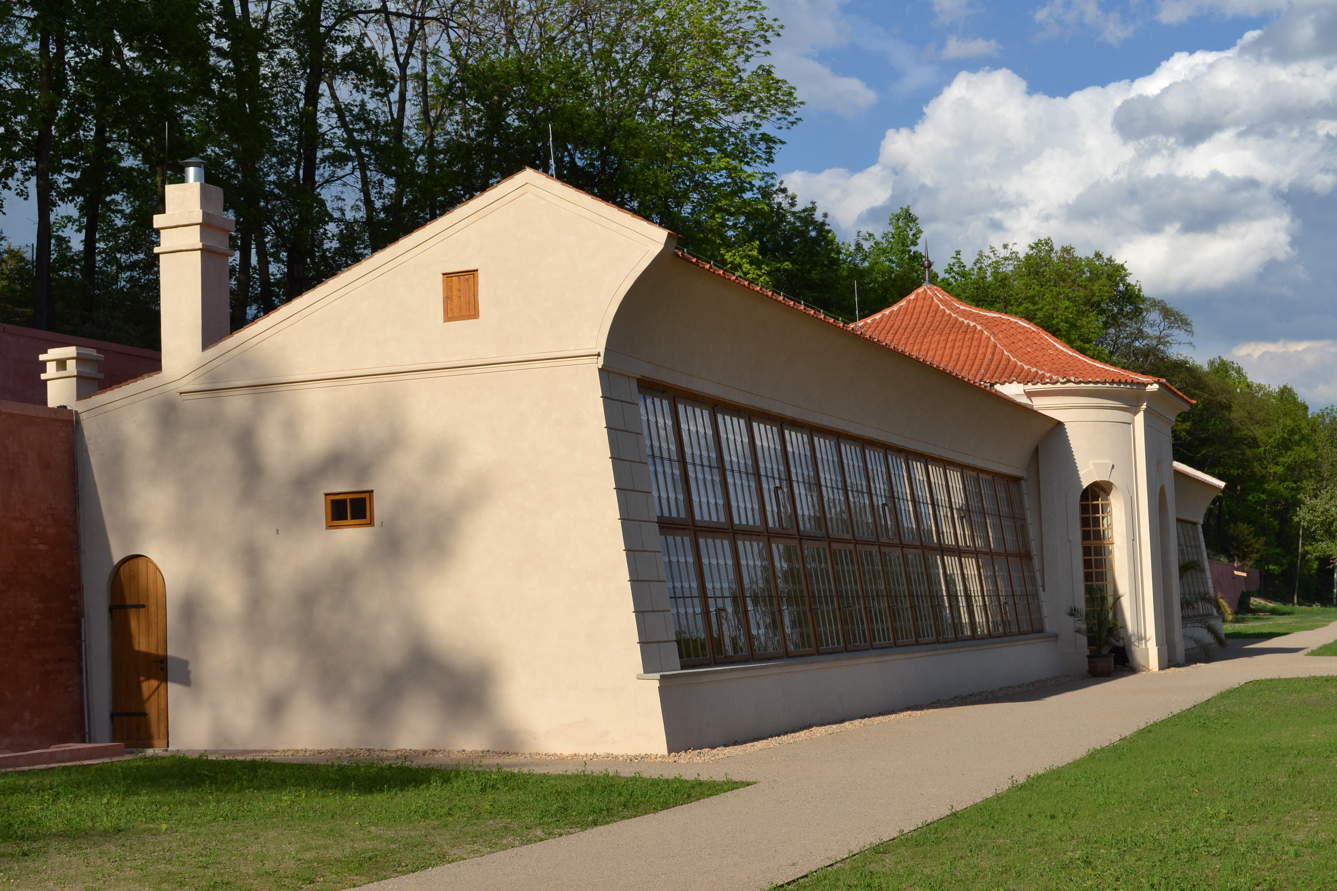 Renewed orangery in the gardens of Břevnov monastery, Prague, Czech Republic.